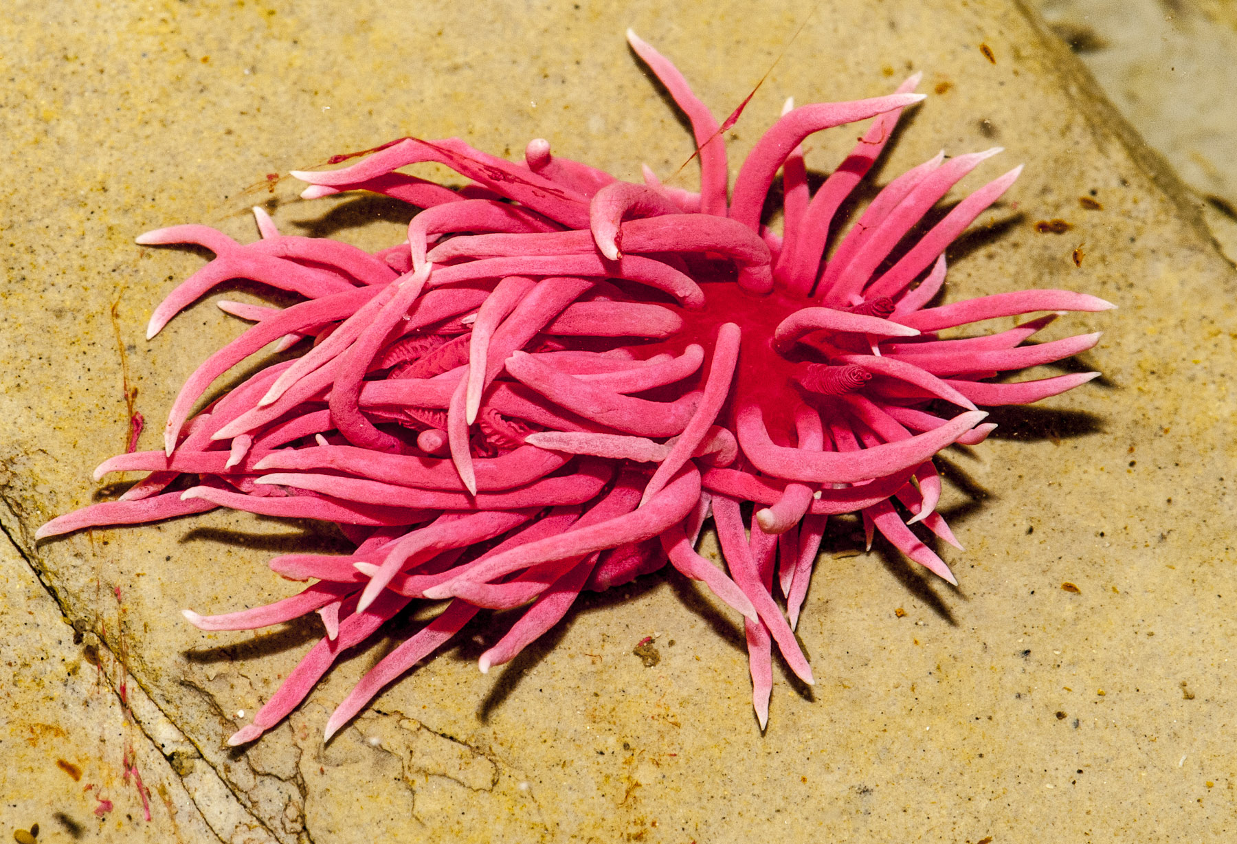 You have to study this nudibranch to see which way it is gong. The nudibranch is having a bad Cerata day as they are going everywhere, but the rhinophores give the anterior anyway. This is only about 3/4 of an inch. I do not think you could have too many photos of this beautiful mollusk.